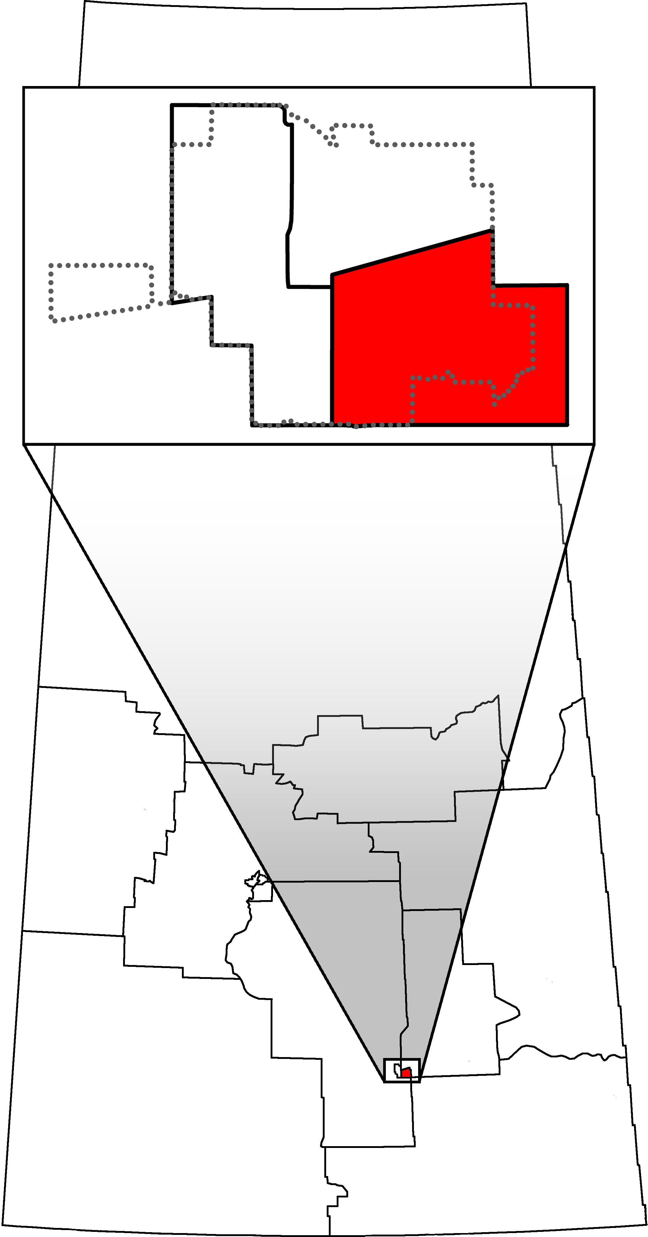 Regina—Wascana in relation to other Saskatchewan federal electoral districts as of the 2013 Representation Order. Dotted line shows Regina city limits.